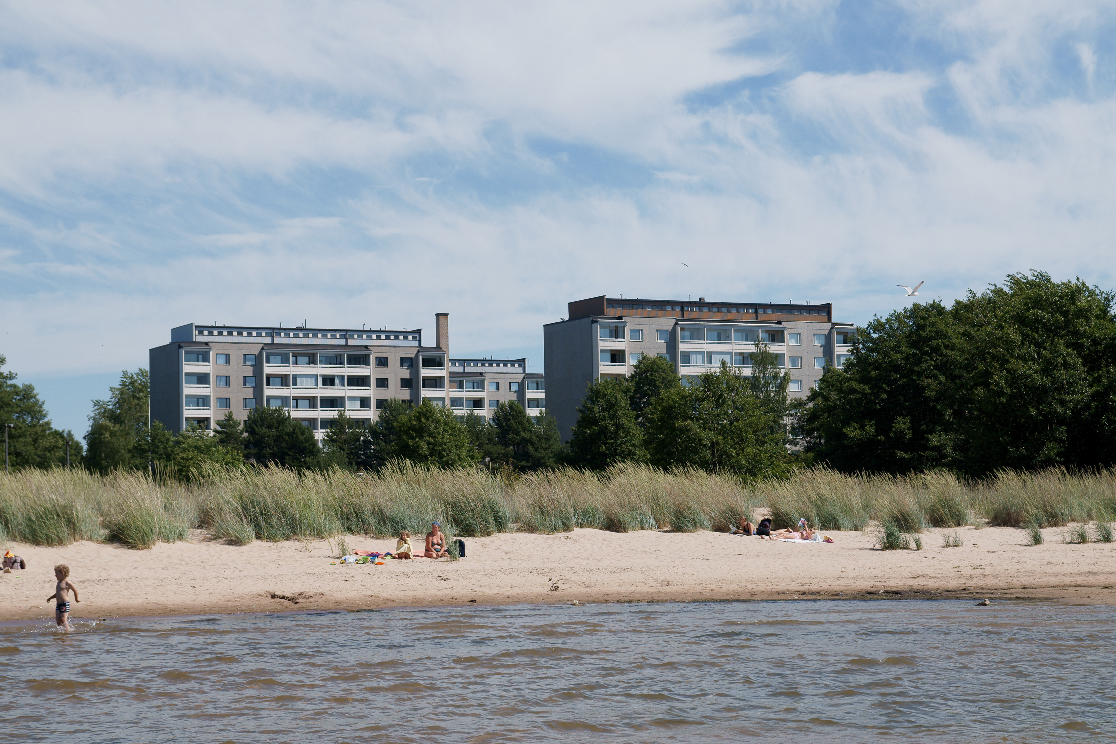 Flats in Uniluoto.